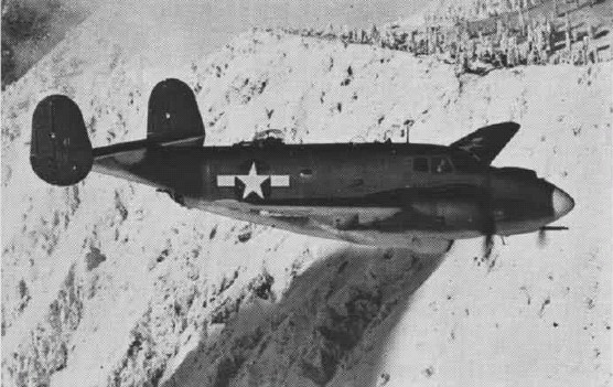 A Lockheed PV-2 Harpoon in flight in 1945.